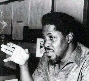 Remi Fani-Kayode as a young man